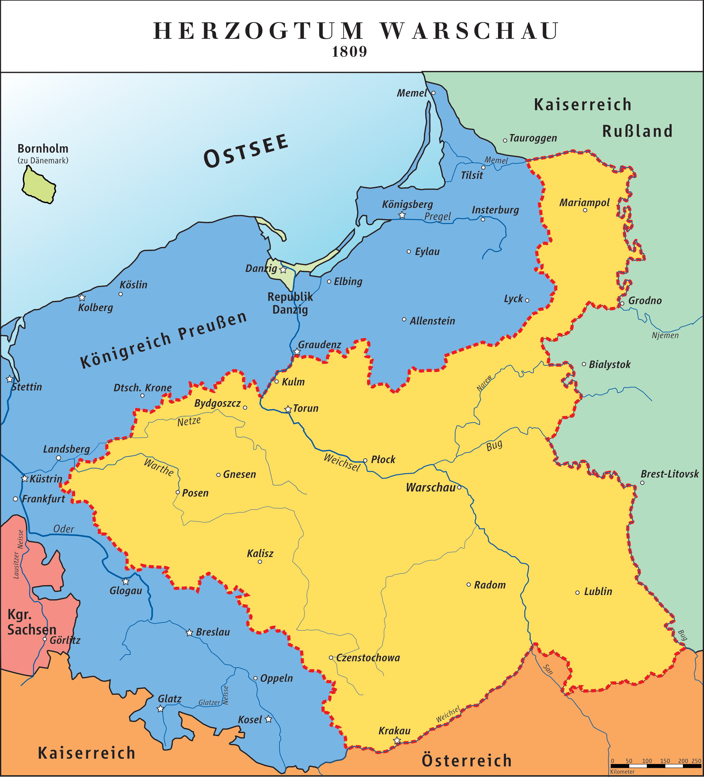 Karte des Herzogtums Warschau 1809/Map of the Duchy of Warsaw 1809